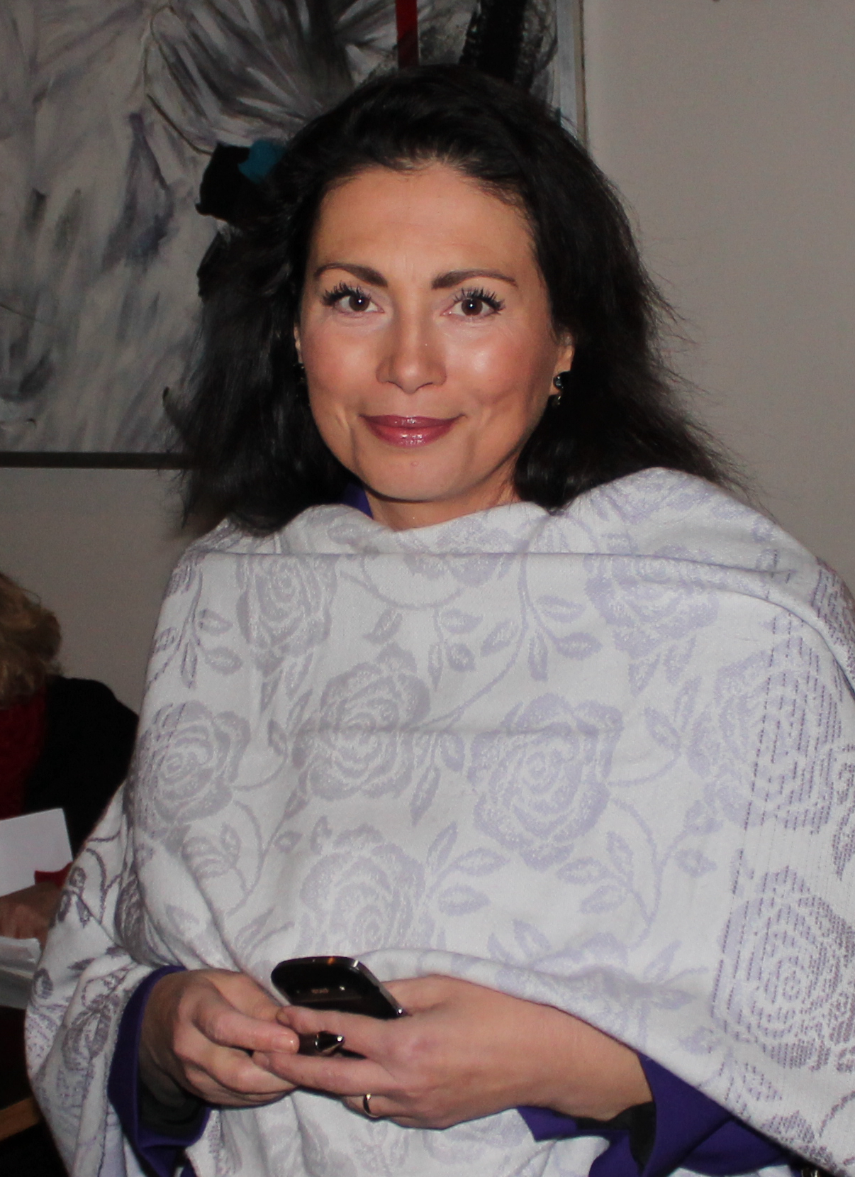 Czech politician Jana Bobošíková before presidential debate organized by Hospodářské noviny (journal) in Prague